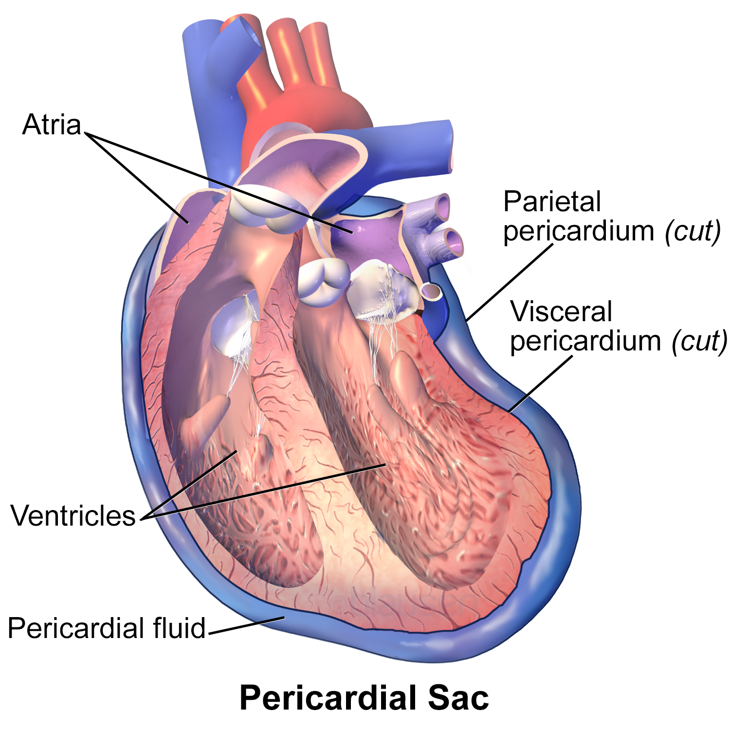 Pericardial Sac. See a full animation of this medical topic.